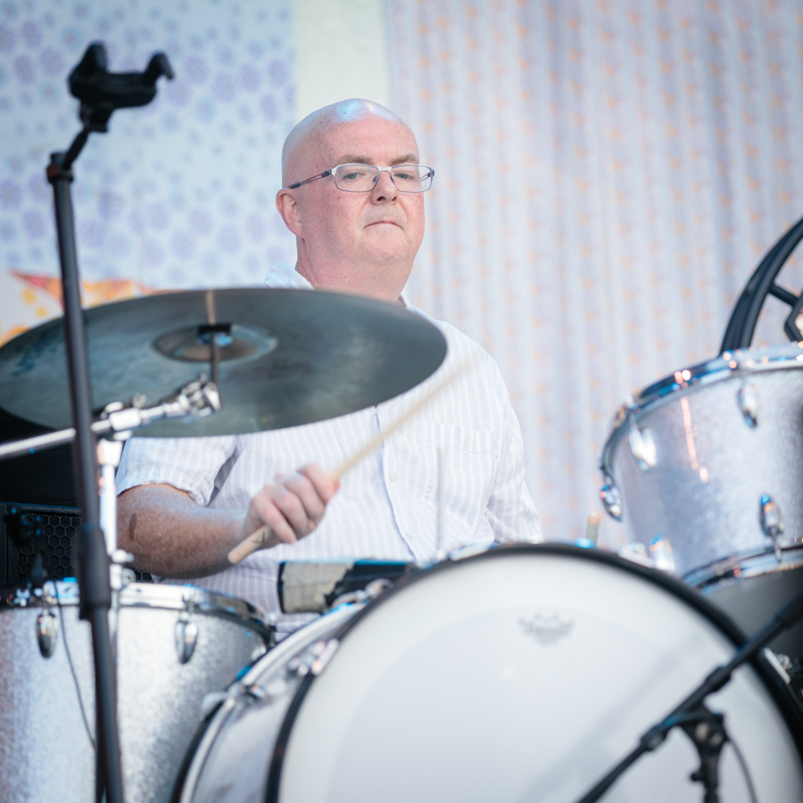 Øystein Paasche with deLillos at the main stage at Stavernfestivalen. The concert was part of Stavernfestivalen and took place on 13. July 2018 in Stavern. Lineup:Lars Lillo-Stenberg (guitar and vocal)Lars Fredrik Beckstrøm (bass guitar)Øystein Paasche (drums)Lars Lundevall (guitar)